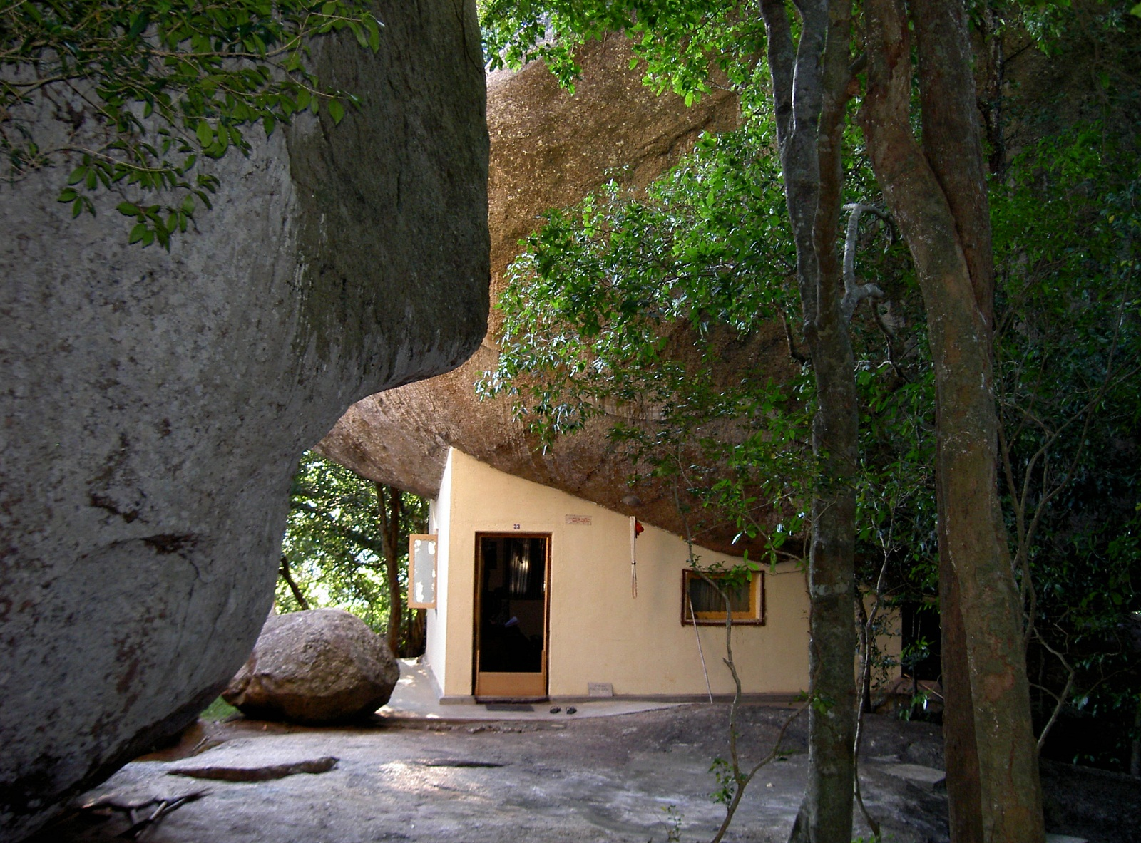 A kuti (monk's residence) built in a cave at the Na Uyana Aranya